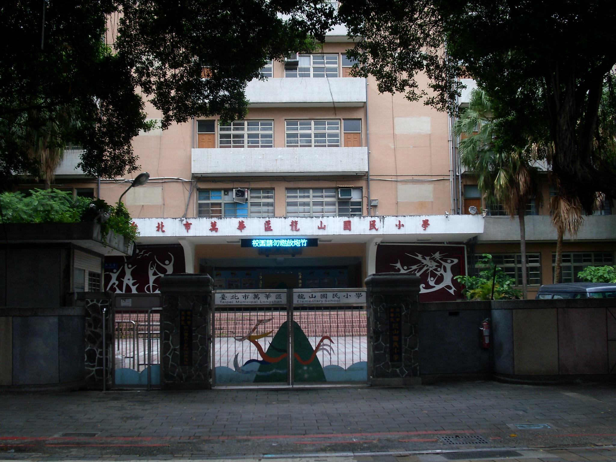 Taipei Municipal LongShan Elementary School gate on Guangzhou Street